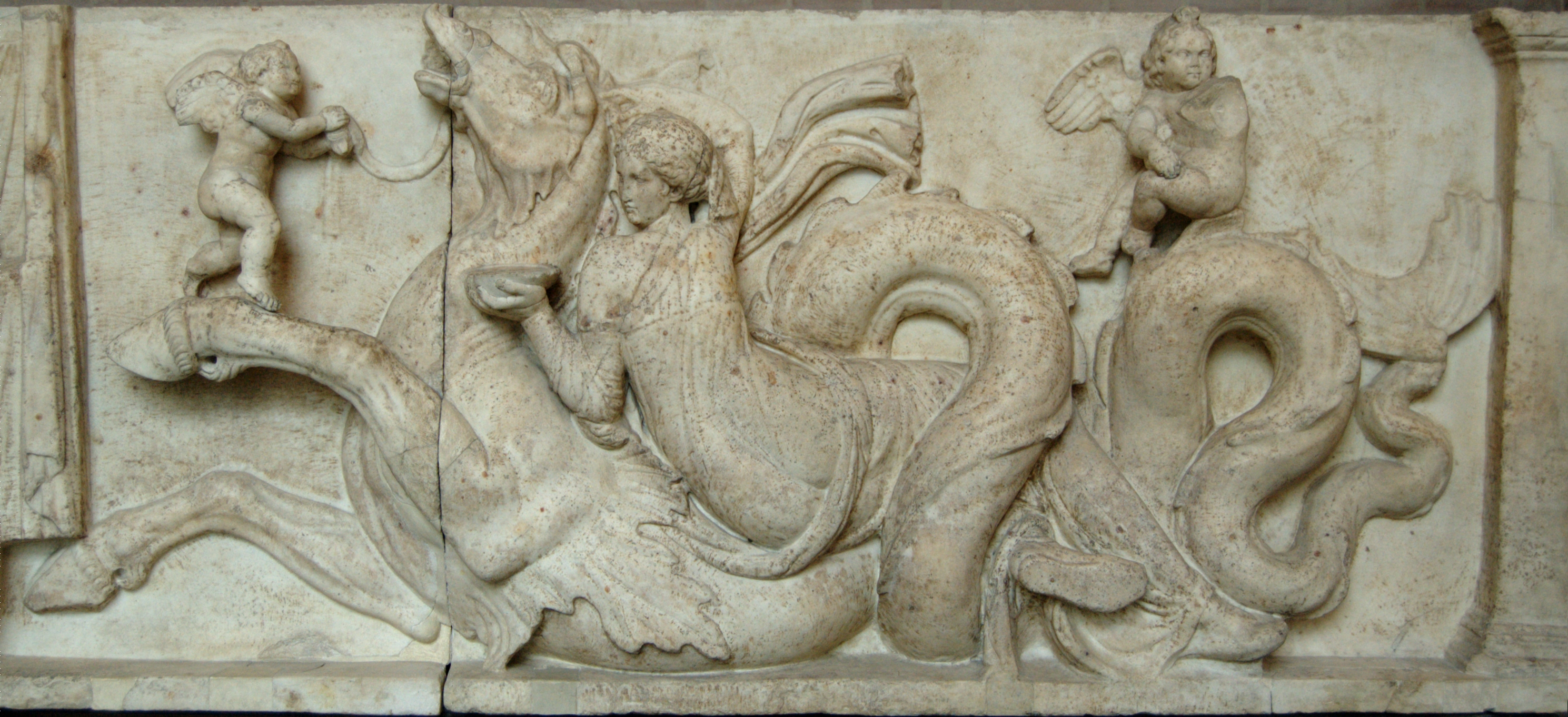 So-called “Altar of Domitius Ahenobarbus” or “Statue Base of Marcus Antonius”, relief frieze of a monumental statue group base. Sea thiasos for the wedding of Poseidon and Amphitrite, 2nd half of the 2nd century BC. Detail: Nereid on a hippocampus, bringing a present; Erotes (front panel).